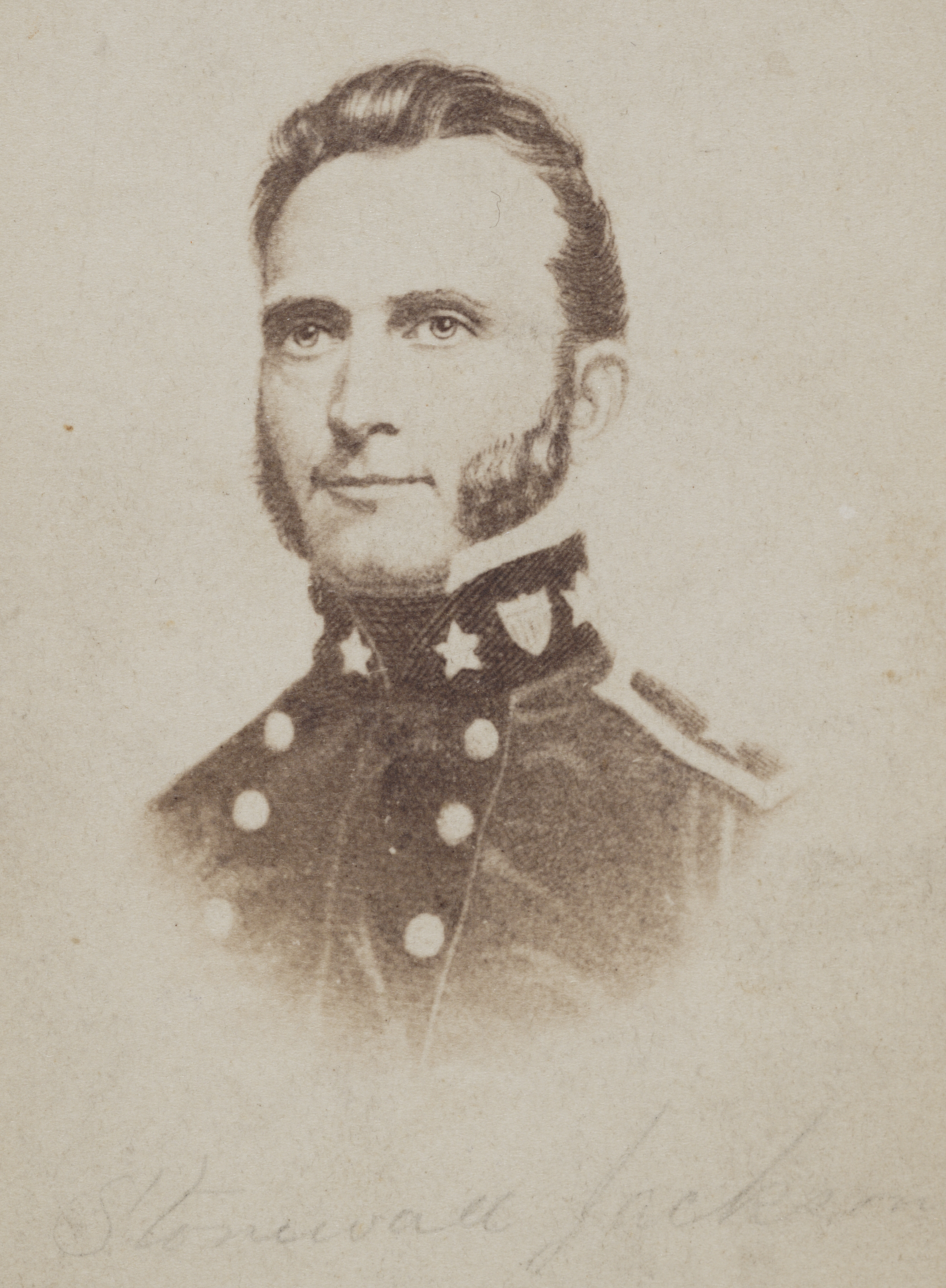 Stonewall Jackson (possible signature below photo)